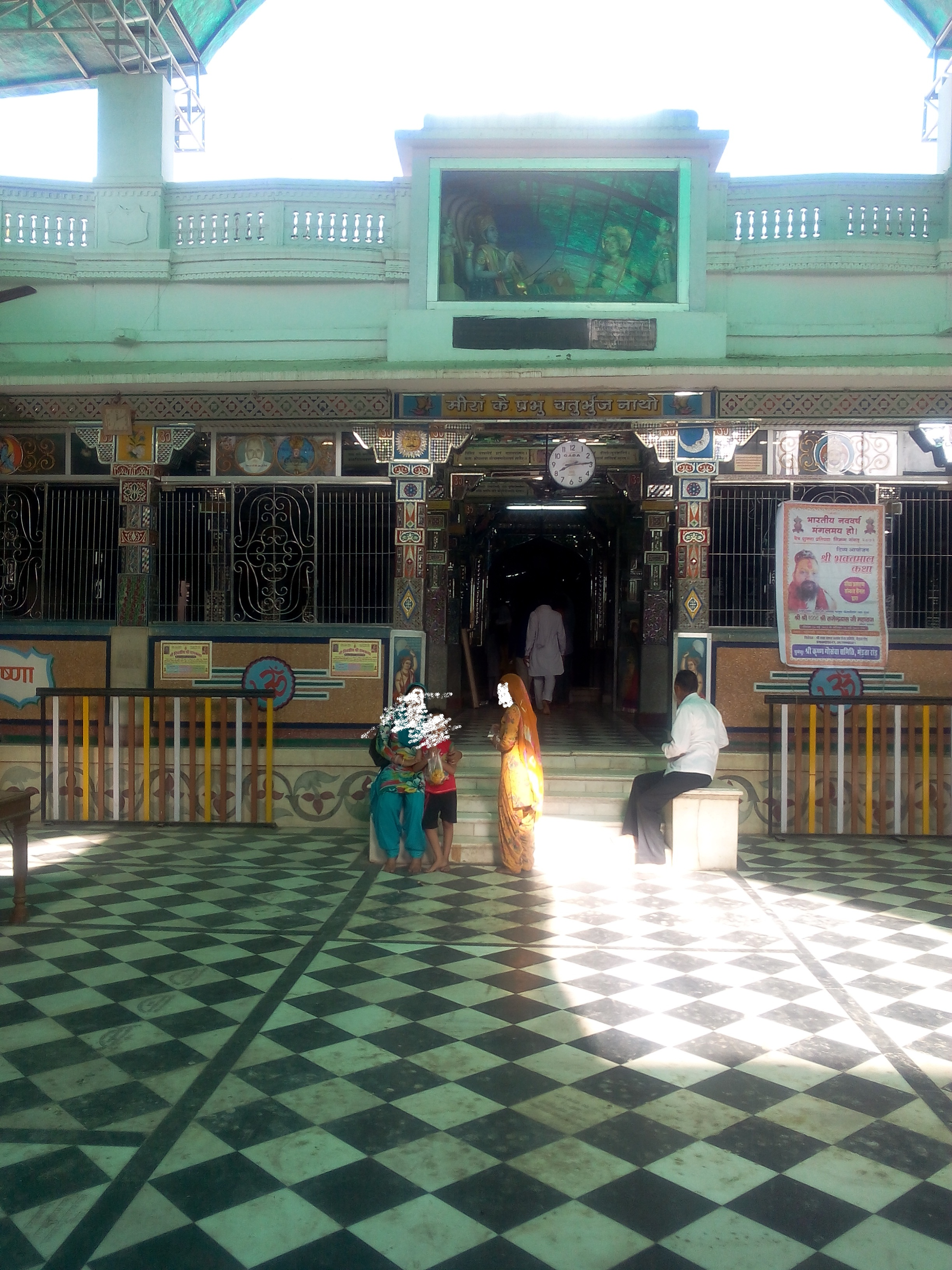 It is about Meera chaturbhujnath temple complex.sivender 9829800543